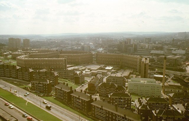 Park Hill Flats from Hyde Park Flats, 1980 View from high above Hyde Park Terrace and Bernard Street over Park Hill Flats